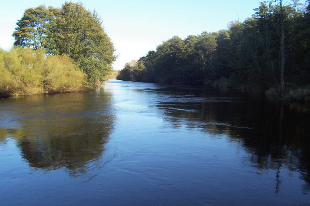 Cherry Island Wood The River Ure meanders sharply beside Cherry Island Wood. This view looks downstream in the direction of Boroughbridge, some 3 miles distant to the east